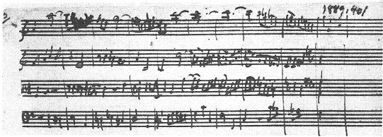 Mozart autograph of his Flute Quartet No. 3 in C major, K. 285b